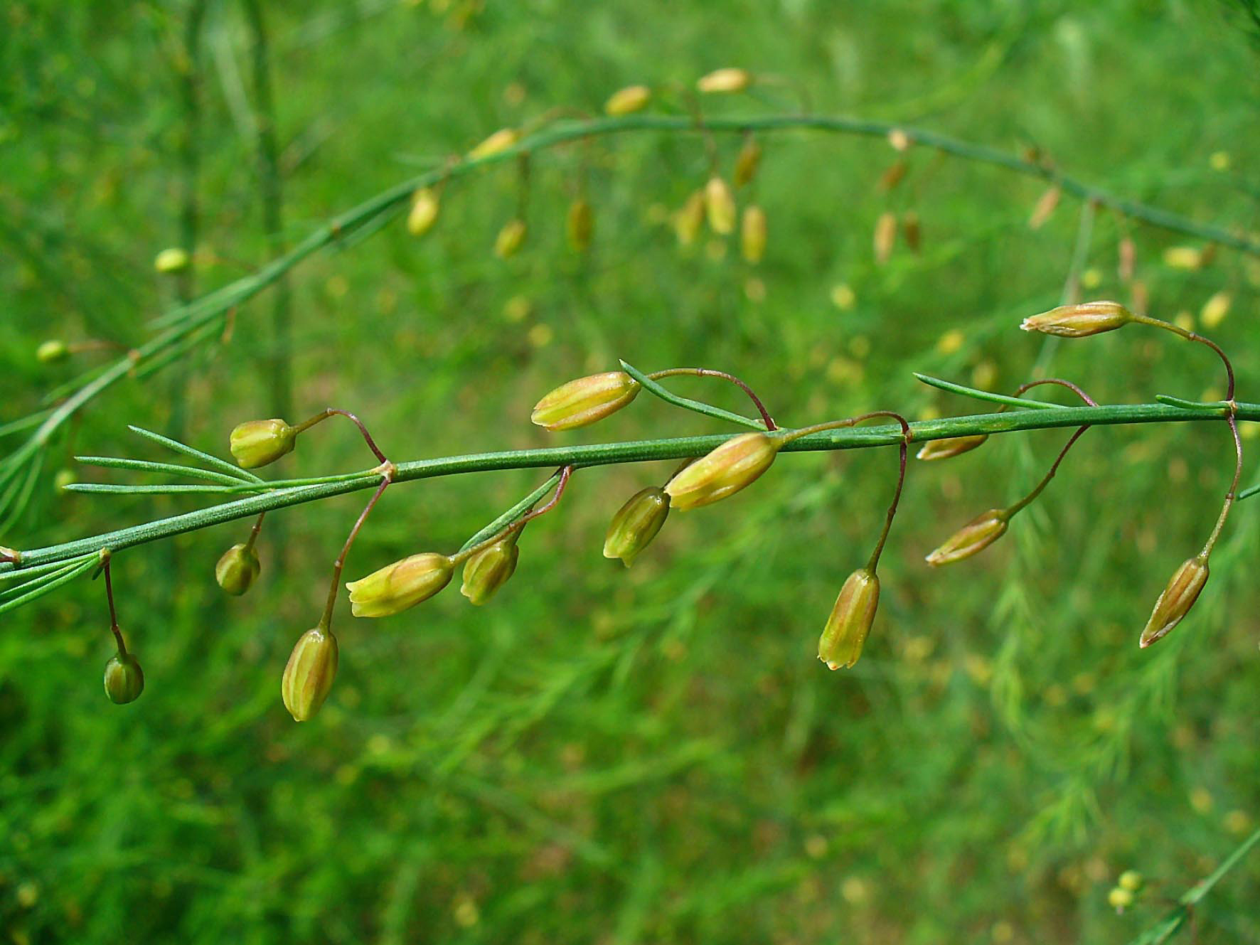 Asparagus officinalis, Asparagaceae, Asparagus, flowers; Stutensee, Germany. The fresh young subterranean sprouts are used in homeopathy as remedy: Asparagus officinalis (Aspar.)